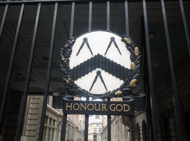 The Worshipful Company of Carpenters. Arms granted in 1466. At London Wall, London